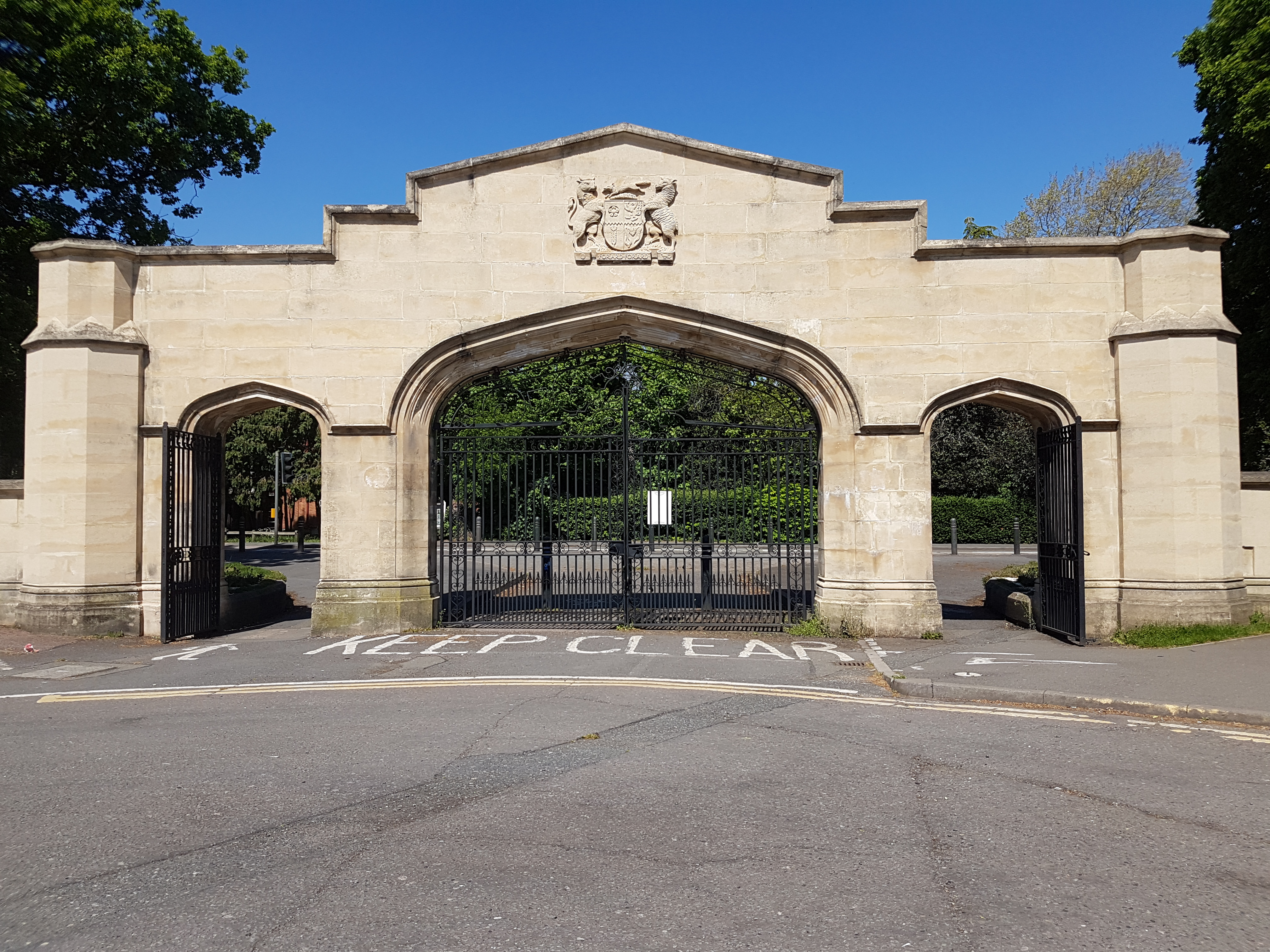 This is one of the northern entrances to Loughborough University.